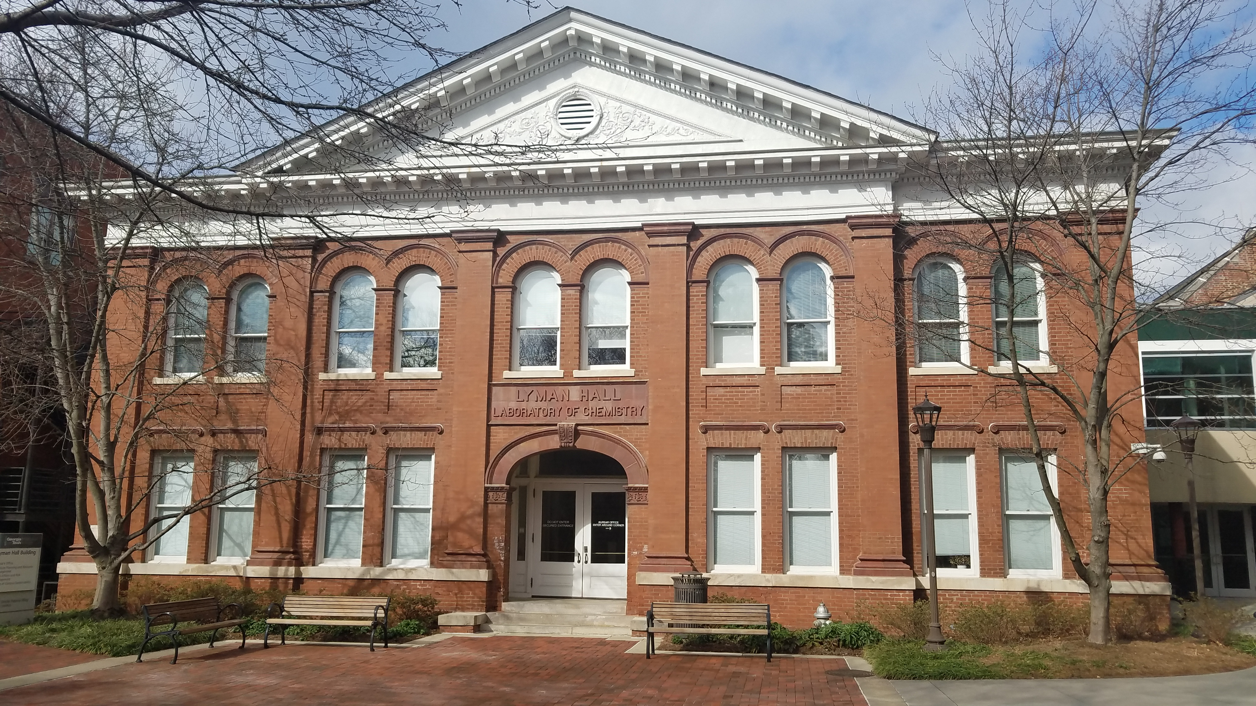 Lyman Hall Building on the main campus of the Georgia Institute of Technology, Atlanta, Georgia, United States